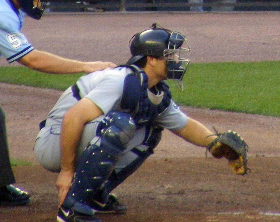 Jeff Clement with the Seattle Mariners